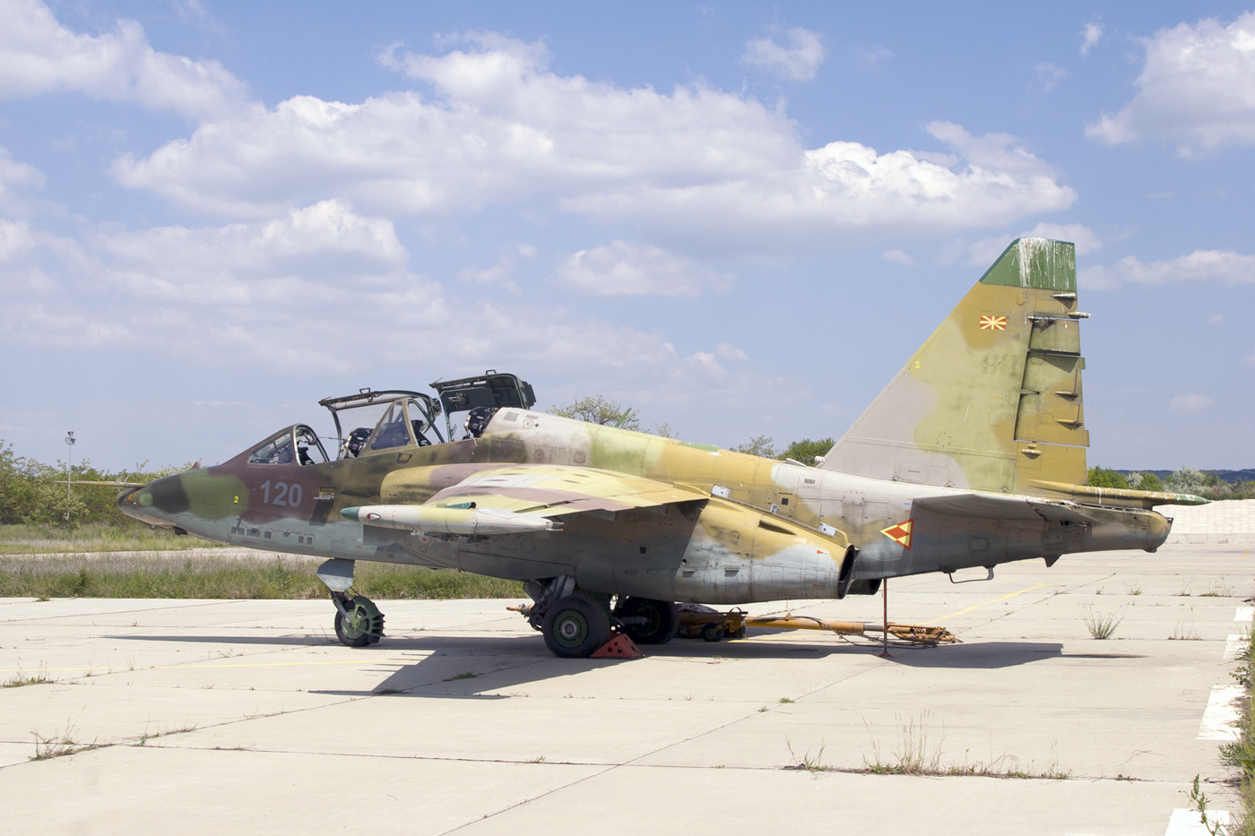 The only Su-25UB that was used by the Macedonian Air Force. All four were withdrawn from use in 2004 but still in good shape in April 2007. Petrovec airbase.